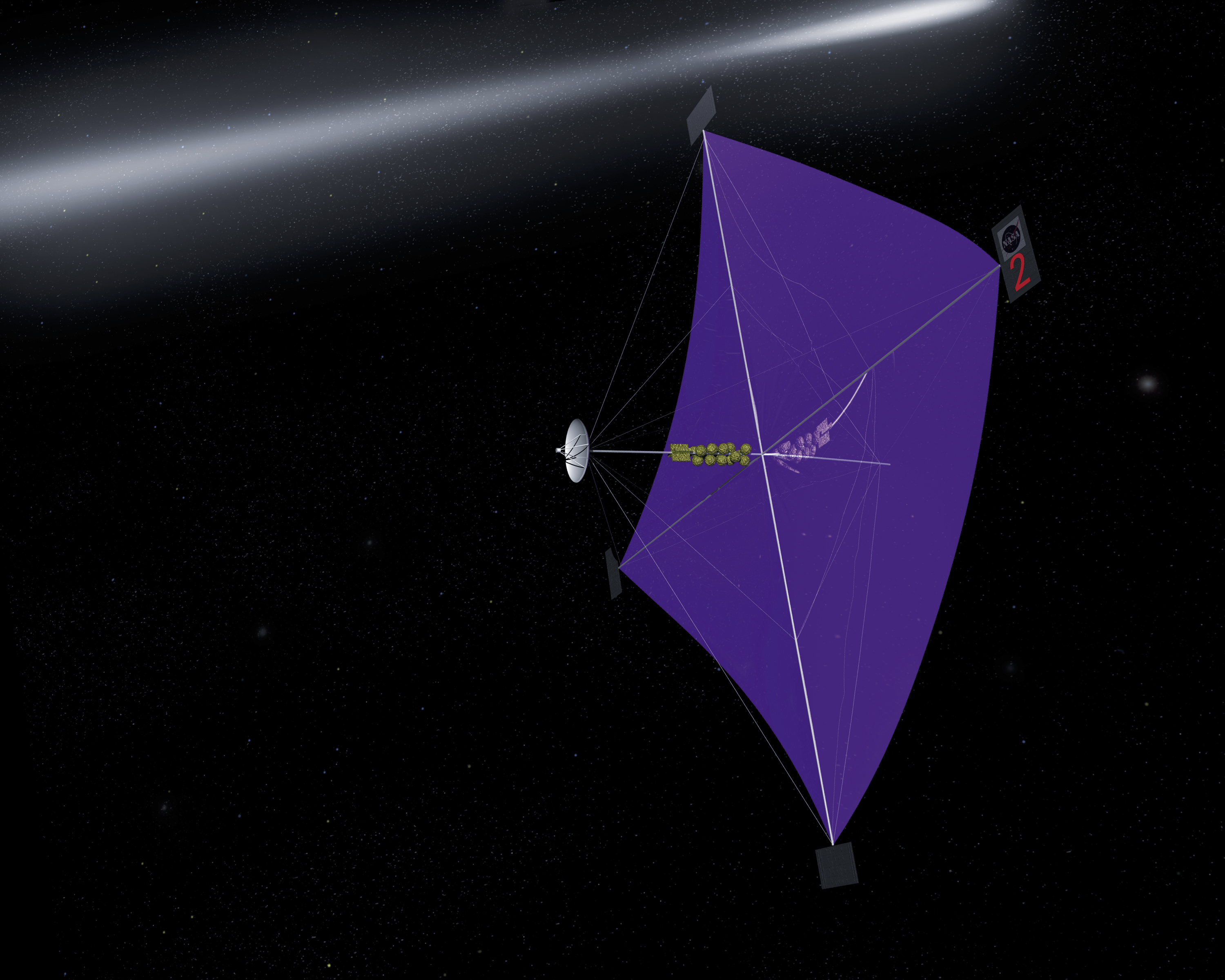 An artist's concept of a space sail.